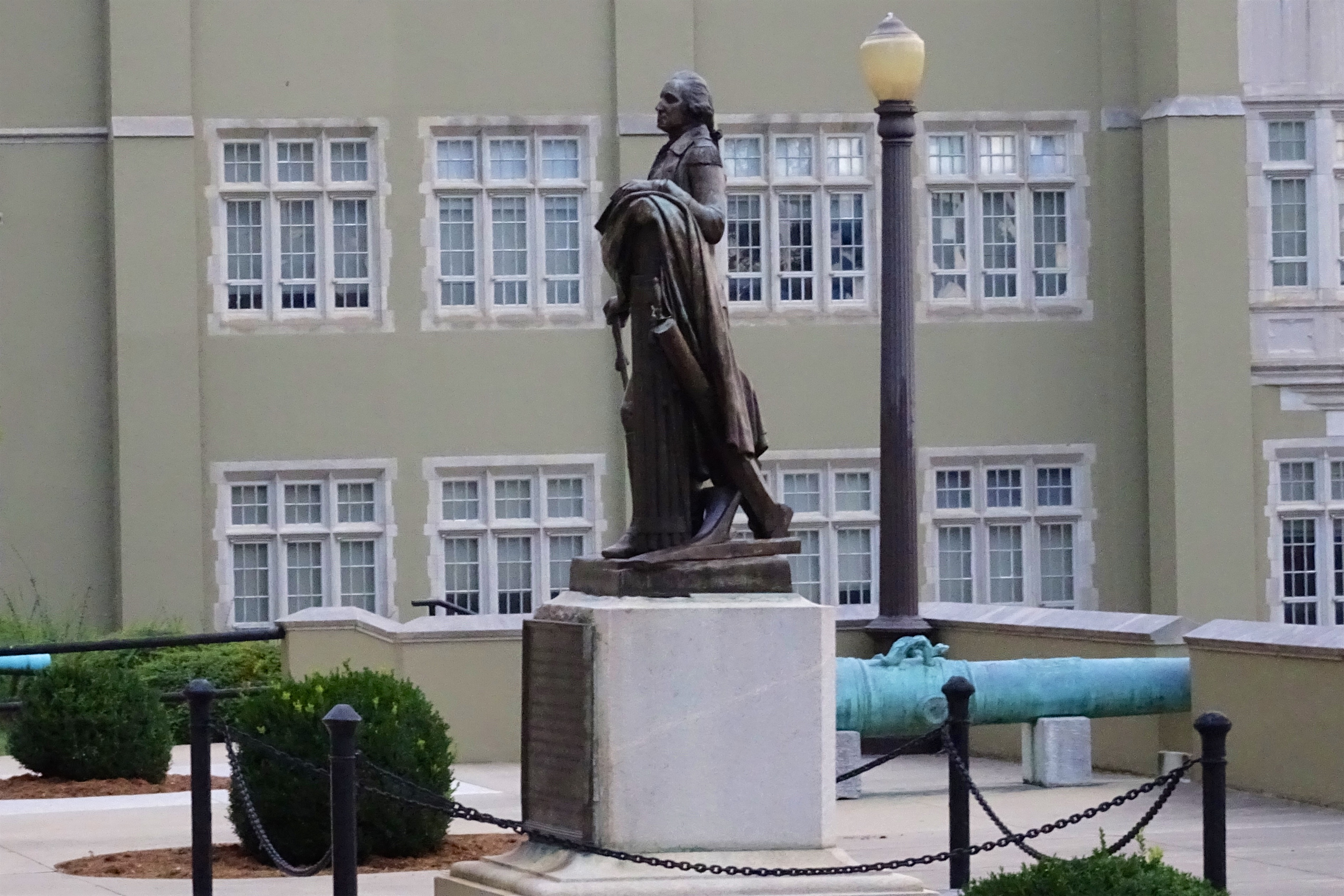 Statue of George Washington cast by William James Hubard, a copy after Jean Antoine Houdon at the Virginia Military Institute in Lexington, Virginia.